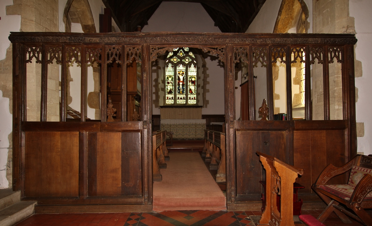 15th-century wooden tracery screen to the chancel of St Mary's parish church, Lower Heyford, Oxfordshire, seen from the nave.